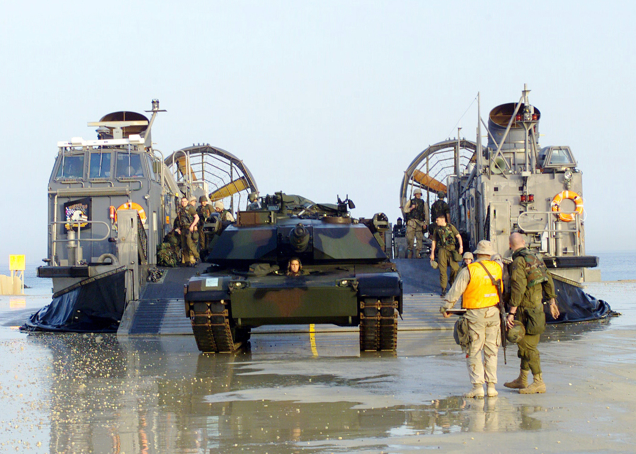 Kuwait (Feb. 15, 2003) -- An M1A1 Main Battle Tank assigned to the 2d Marine Expeditionary Brigade (2-MEB) offloads from a Landing Craft, Air Cushioned (LCAC) from Assault Craft Unit 4 (ACU-4), at a Kuwaiti port facility. Elements of the 2-MEB have been deployed in support of the global war on terrorism, and other operations in support of national interests as directed. U.S. Navy photo by Photographer’s Mate 3rd Class Angel Roman-Otero. (RELEASED) For more information about the M1A1 Main Battle Tank go to the U.S. Marine Corps fact file at